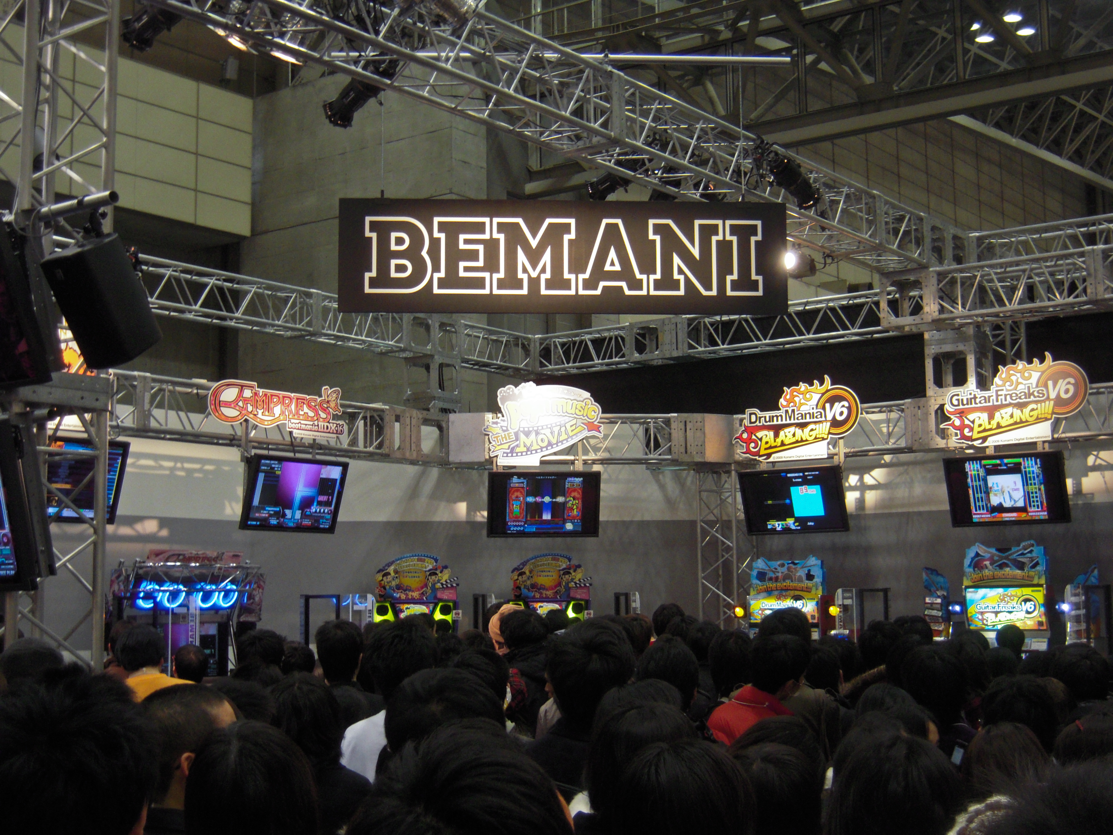 A salon of bemani games in AOU 2009.